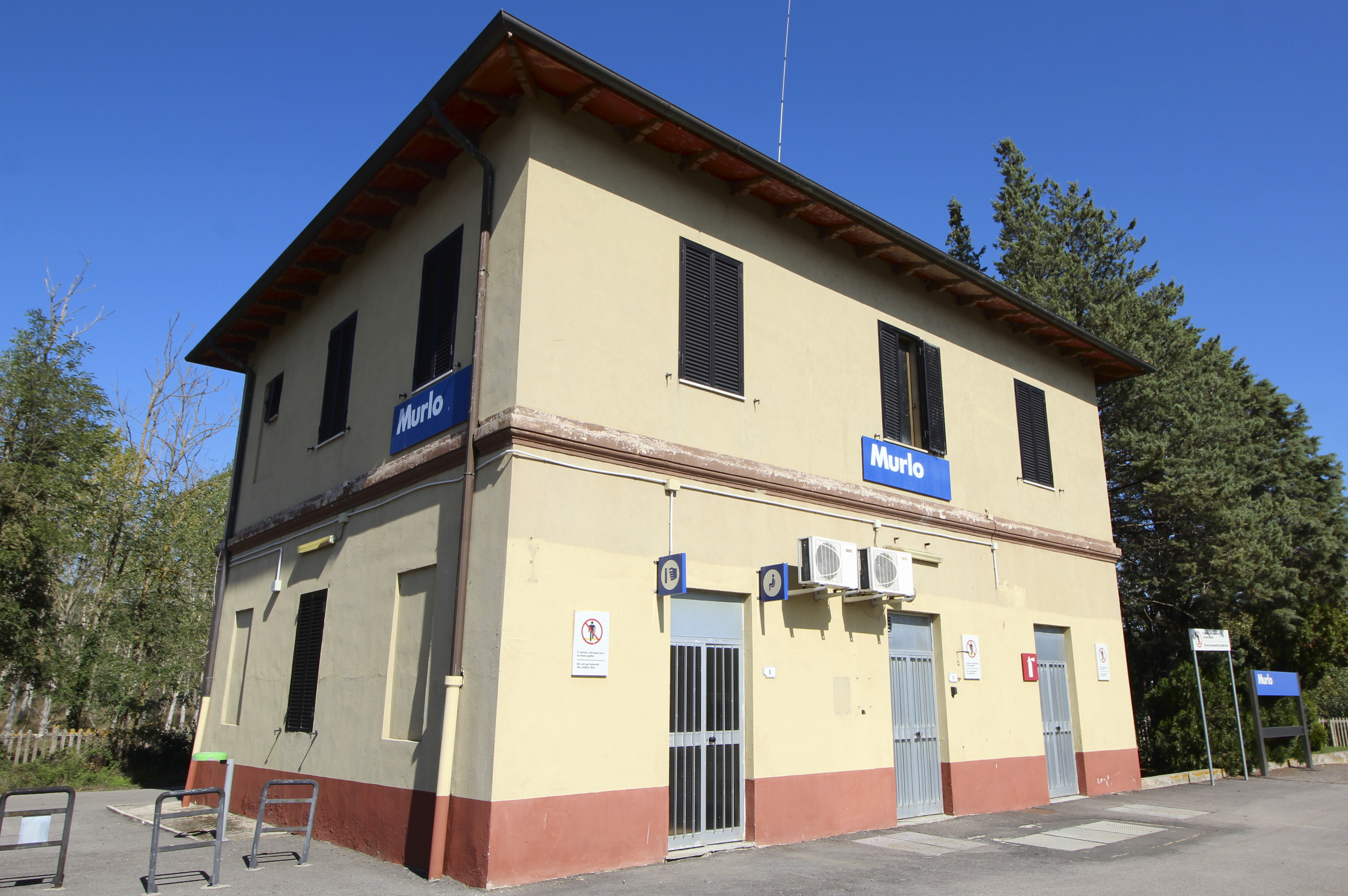 Murlo train station, La Befa, hamlet of Murlo, Province of Siena, Tuscany, Italy